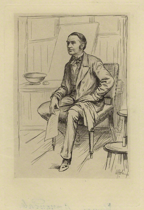 Portrait of Thomas Annandale (1838–1907), British surgeon.